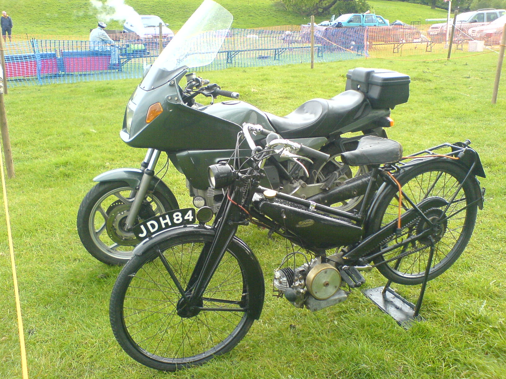 Image:Marbury Merry Days 2007 (7).JPG